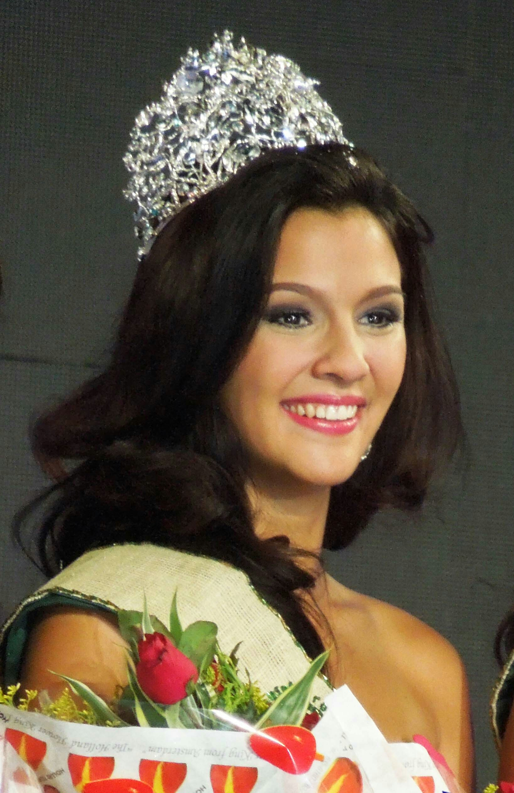 Jamie Herrell when she was crowned Miss Philippines Earth 2014 at the Mall of Asia Arena on May 11, 2014.